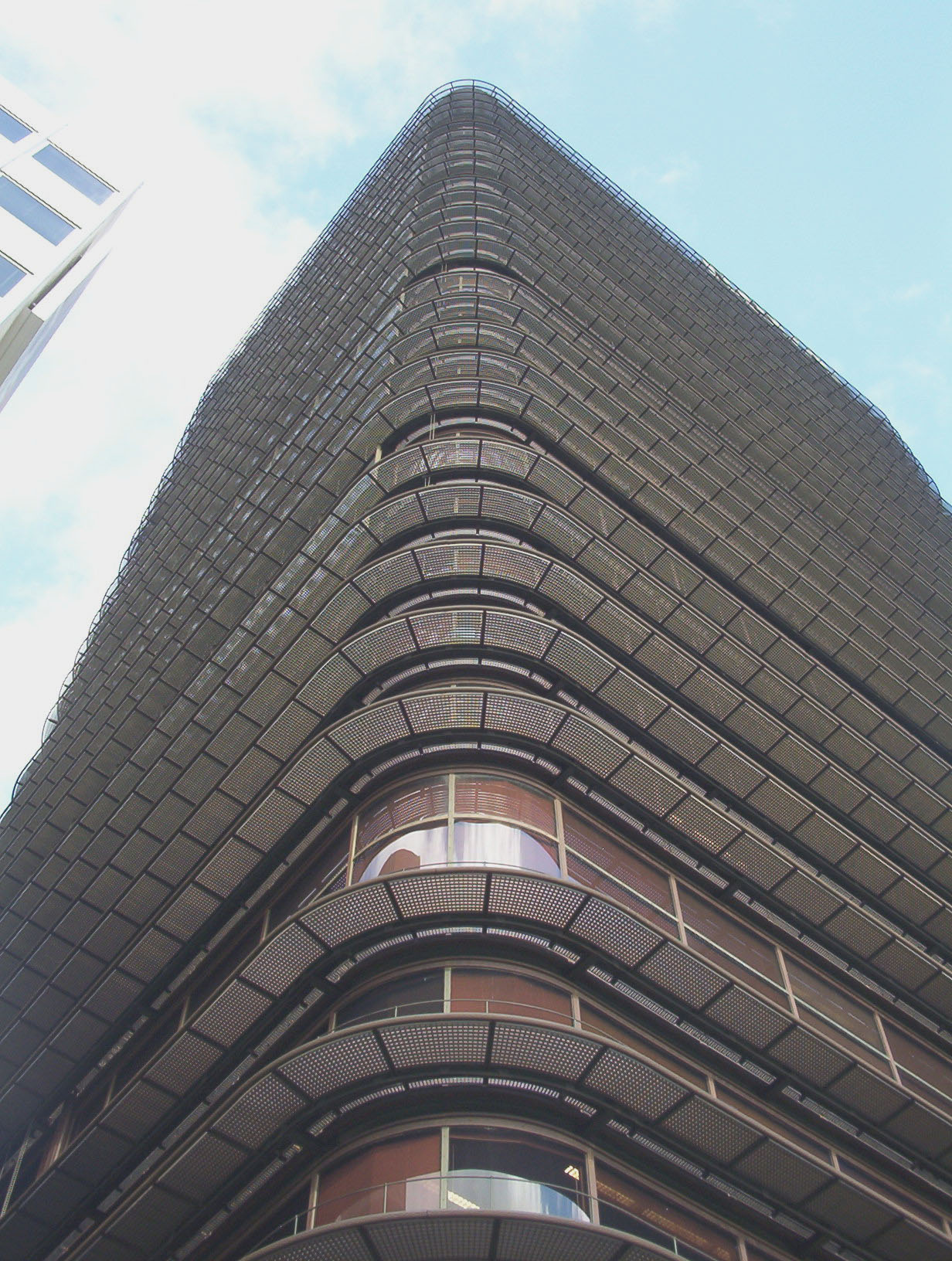 Façade of the BBVA Tower (Madrid, Spain, 1979–1981). Architect: Francisco Javier Sáenz de Oiza (1918–2000).